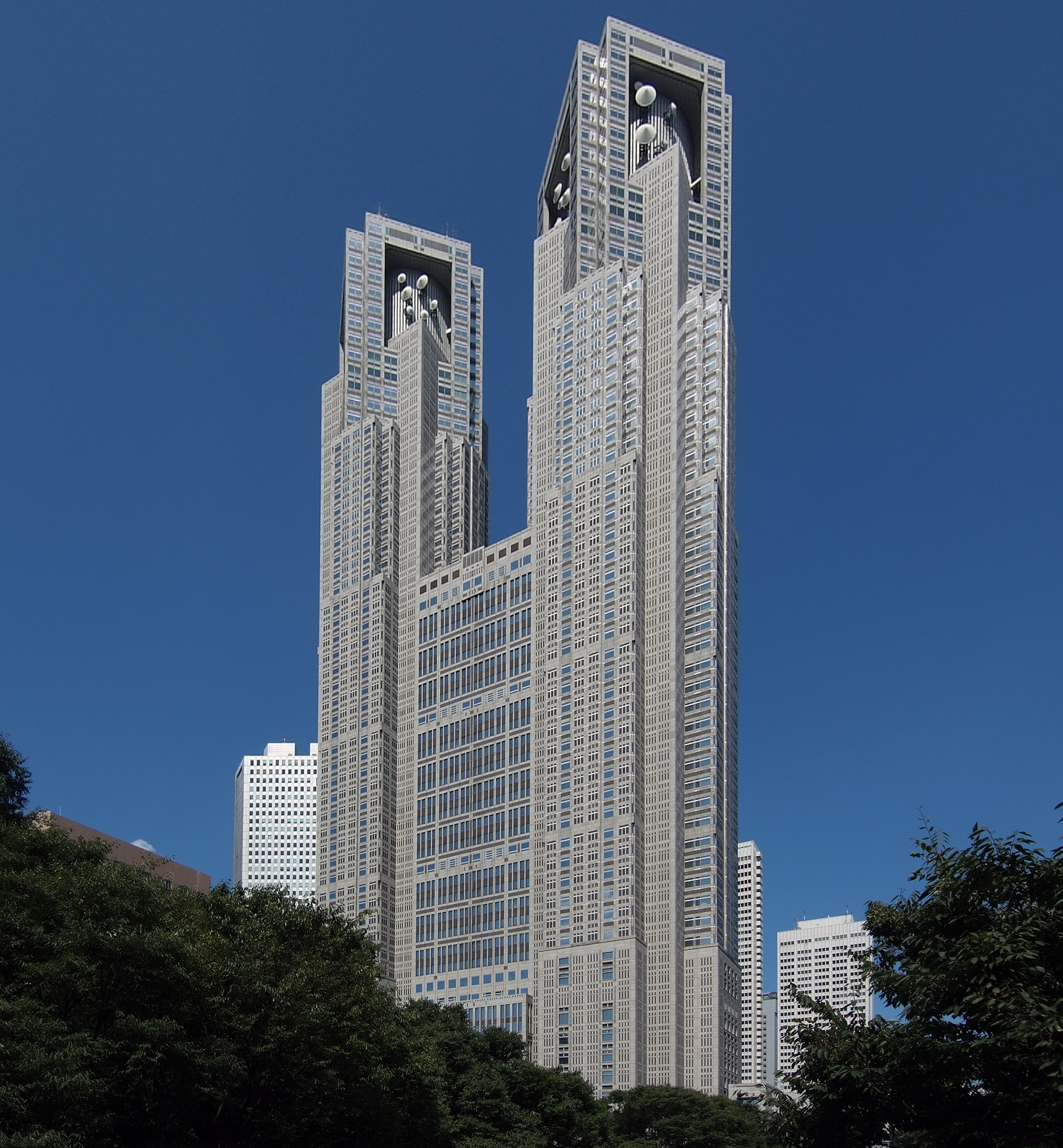 Tokyo Metropolitan Government Building No.1